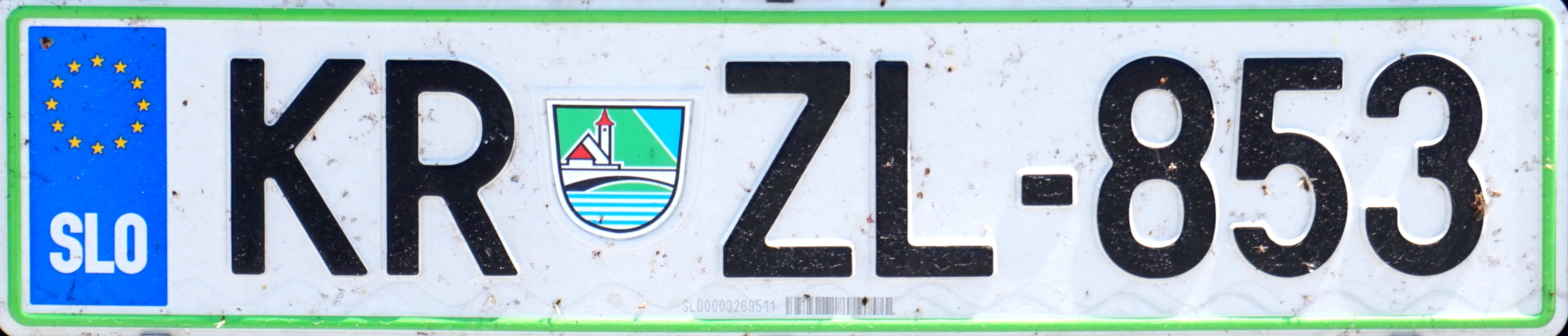 A Slovenian number plate with Kranj district abbreviation and with the CoA sticker of Bohinj municipality. The coat of arms sticker is a customisation made by the vehicle owner and because Bohinj is not one of the 58 administrative units for number plates, this actually falls under illegal plate altering (though the practice seems not to be strictly punished, as such plates are somewhere quite widespread).